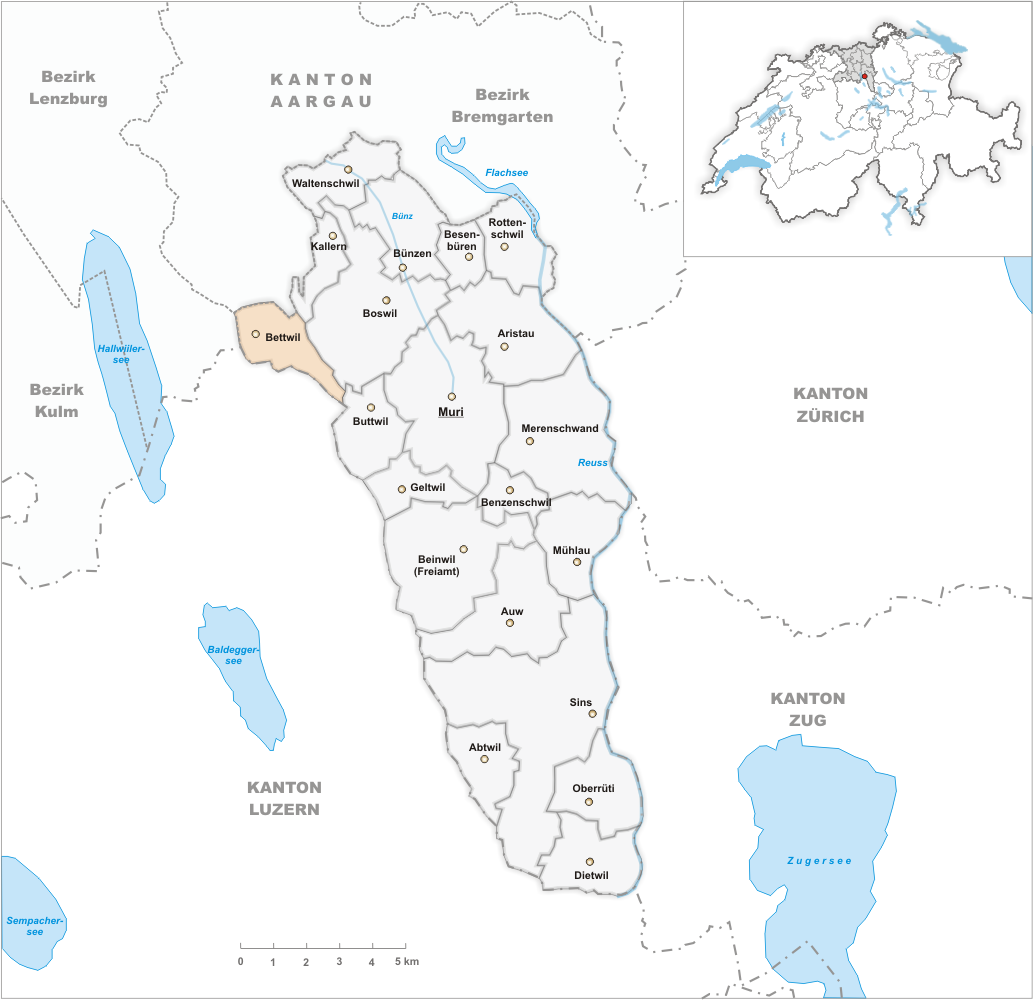 Municipality Bettwil